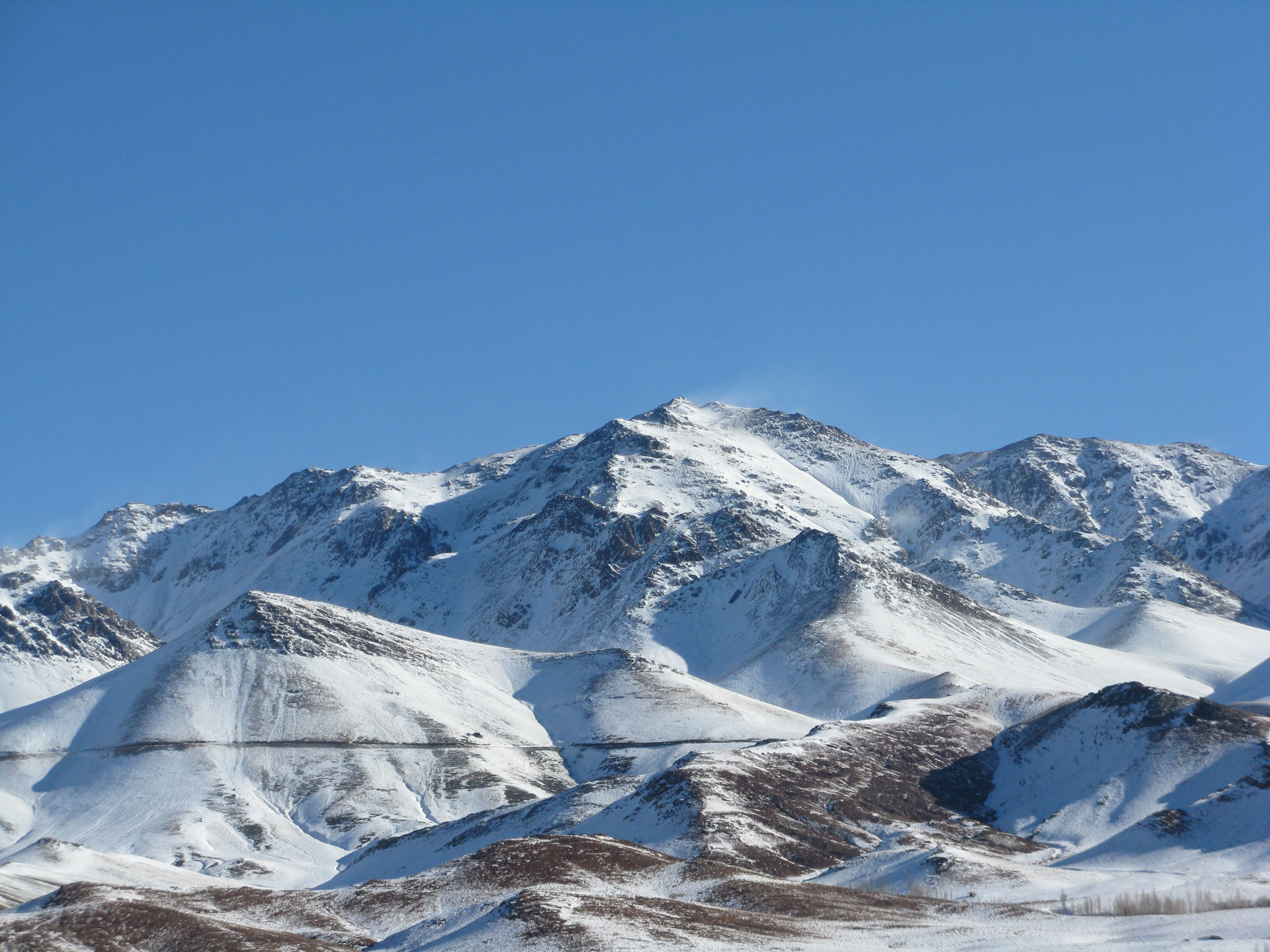 Gargash